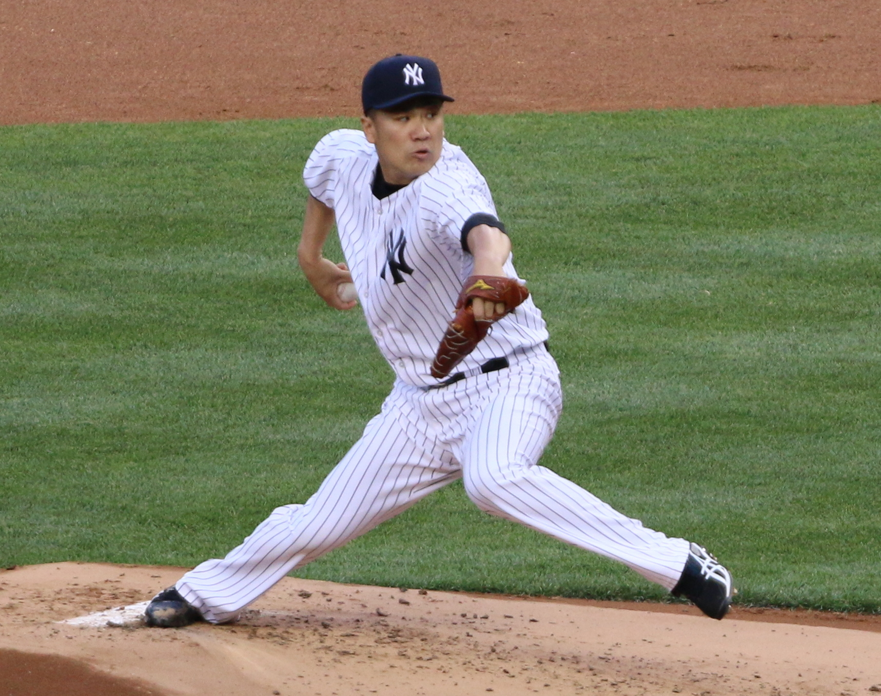 Masahiro Tanaka delivers a pitch in the second inning.